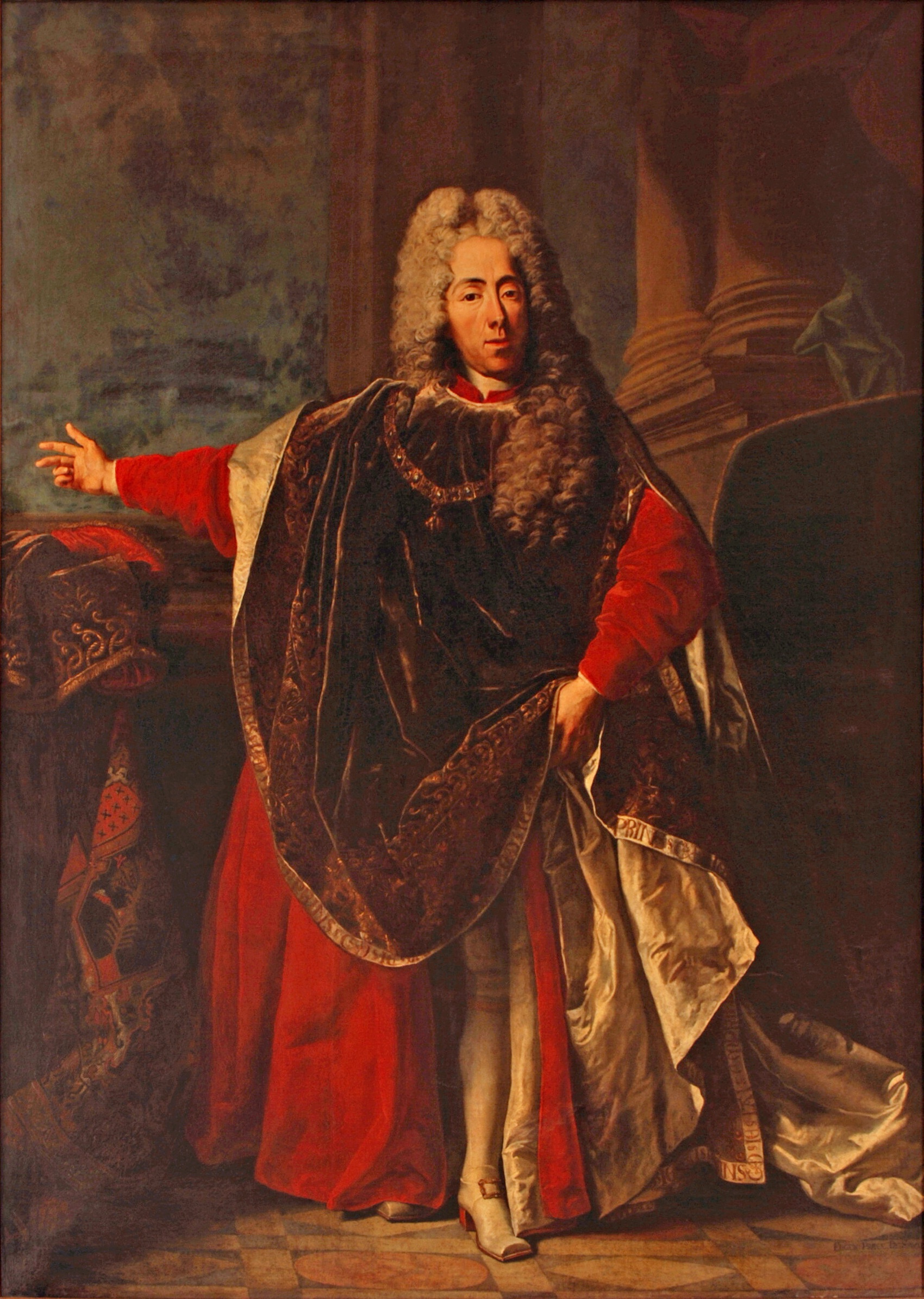 Eugene of Savoy in the regalia of the Order of the Golden Fleece (1663-1736), castle of the town of Rajice.